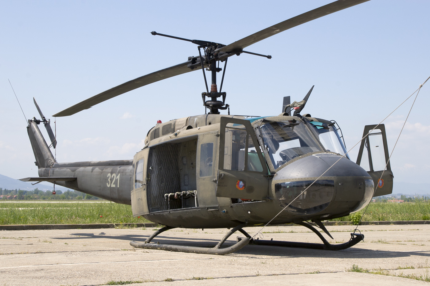 Macedonia received two Hueys from Greece in 2001. This one (321) is still in service today. Petrovec airbase, April 2007.